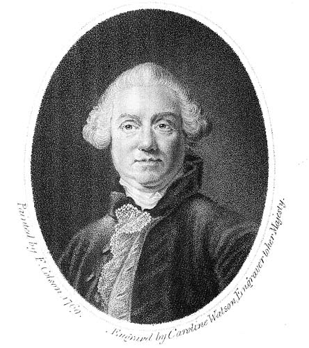 Samuel Foote, cornish poet